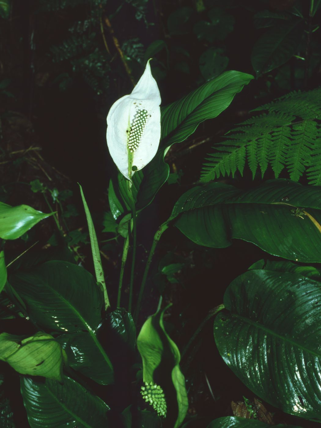 Spathiphyllum montanum (R.A. Baker) Grayum, Aronstabgewächse (Araceae) – Costa Rica: Prov. Puntarenas, Cordillera de Tilarán, Monteverde, Canopy Tour.